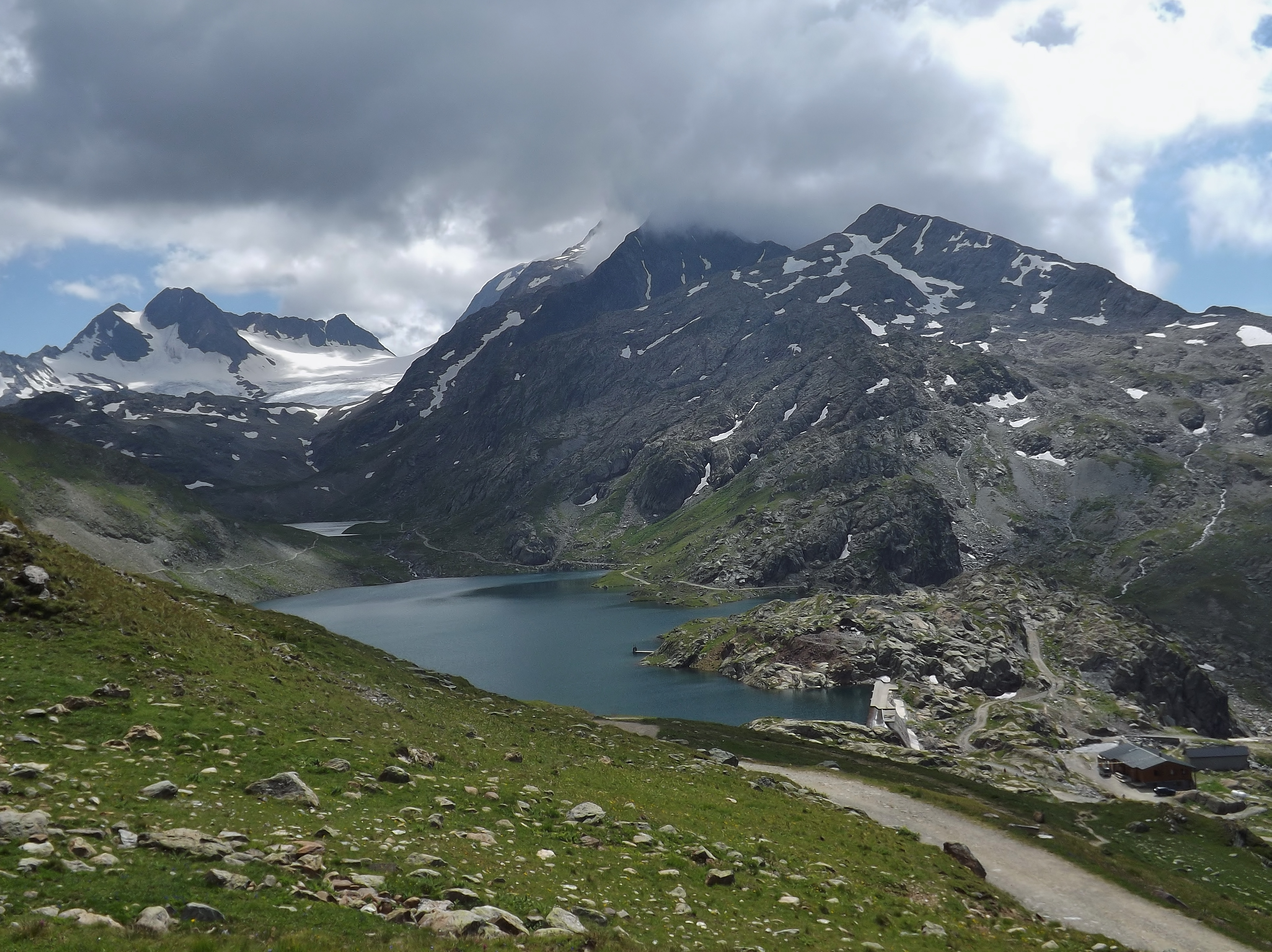 Sight, in the Alps, of the pic de l'Étendard mountain (3 464 meters high), the Refuge de l'Étendard hut (2 430 m high), and the lac Bramant lake, in Savoie, France.